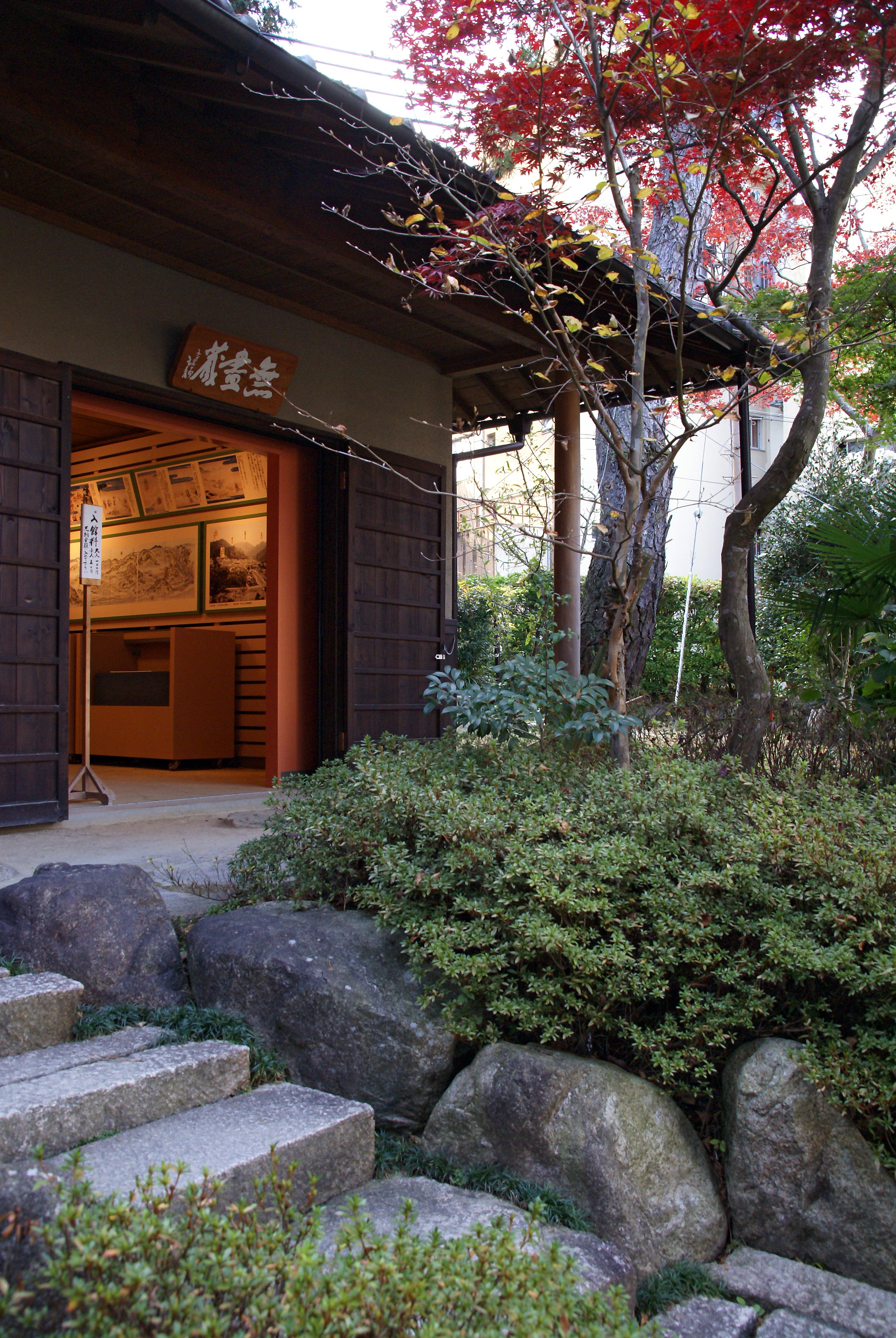 Onsenji of Arima onsen in Kobe, Hyogo prefecture, Japan